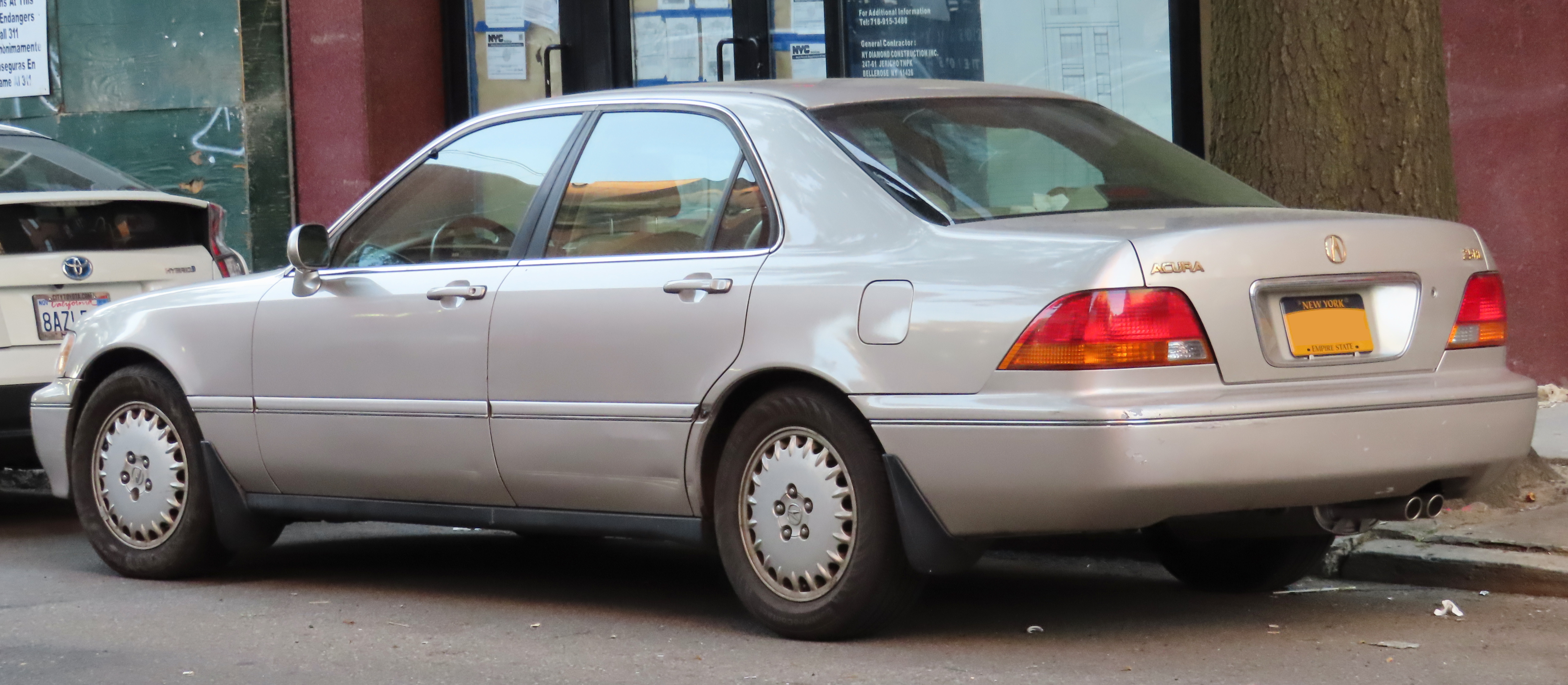 A 1997 Acura RL 3.5 photographed in Flushing, Queens, New York, USA